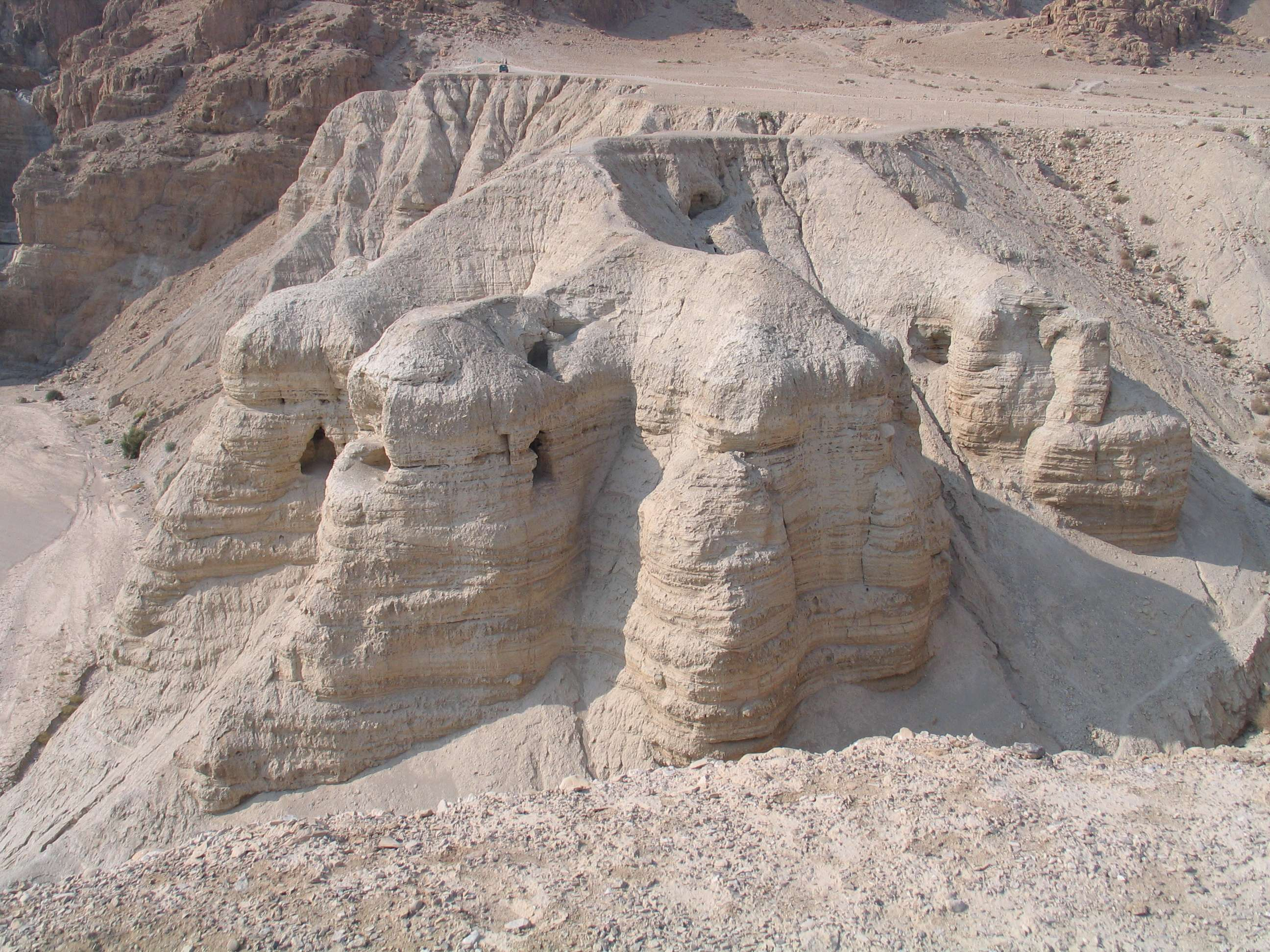 Qumran national park, Israel.